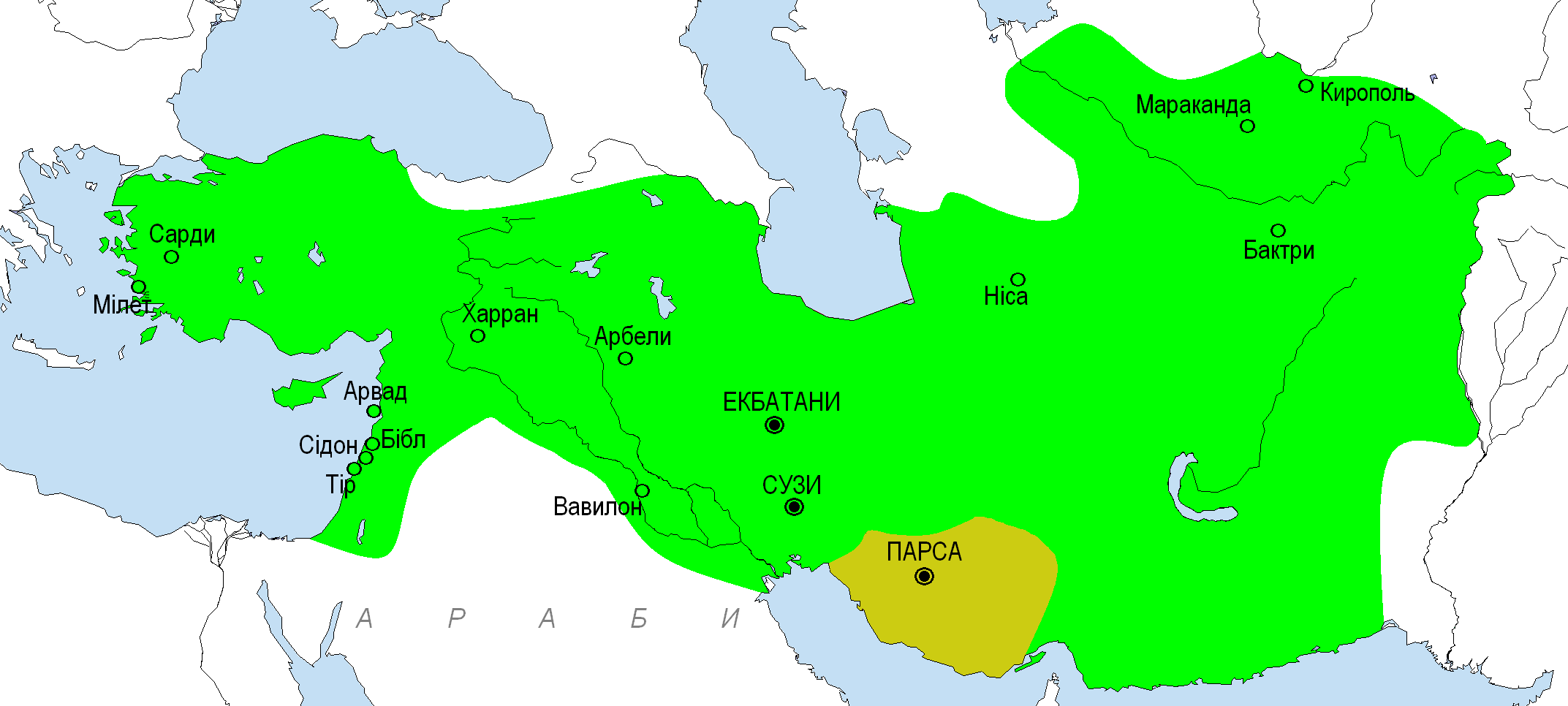 Persian Empire at the times of Cyrus II